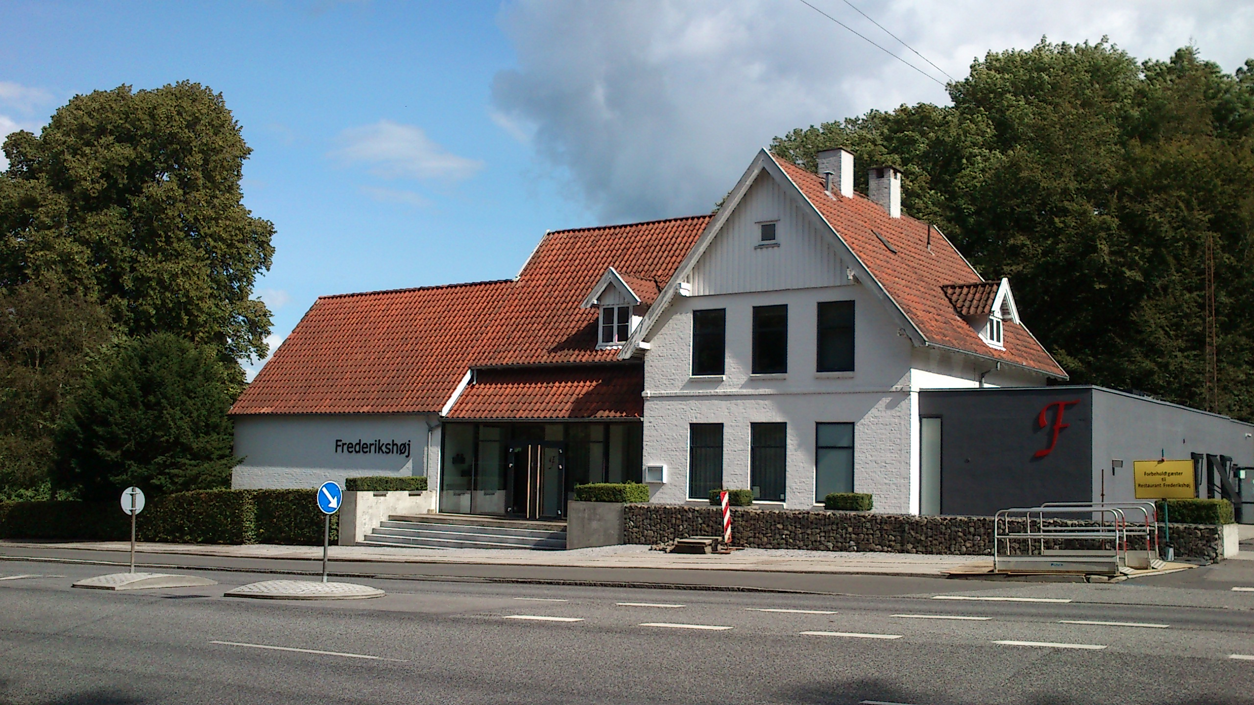 The high-end restaurant and conference center of Frederikshøj. The house was originally built as a residence for the forest officer, but has served food and drinks for more than 200 years. There is a round barrow (a special kind of tumuli) in the gardens, probably dating to the Nordic Bronze Age. The tumuli is named Frederikshøj (lit.: Frederiks'-hill) after the inn.